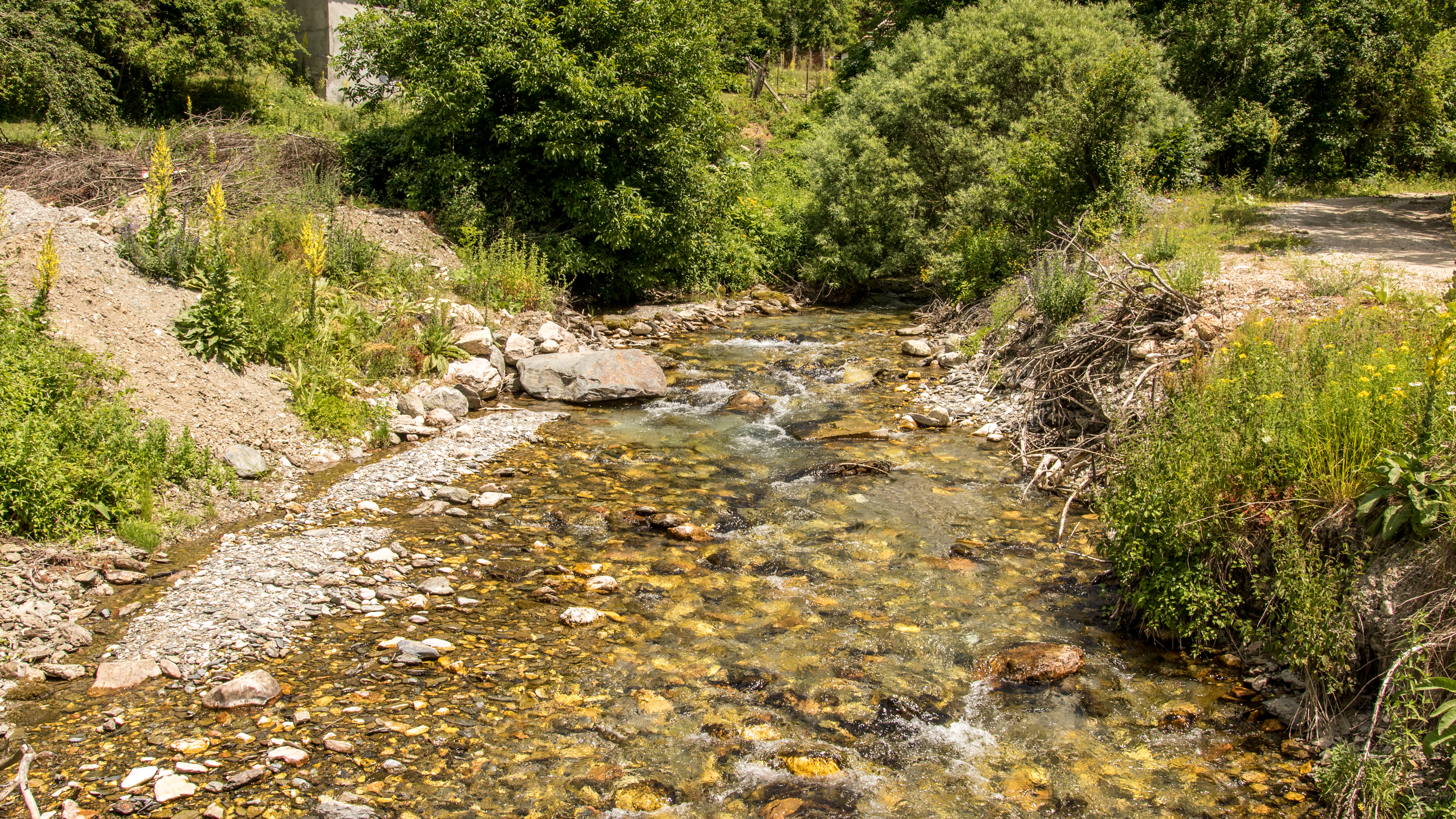 Tresonče River